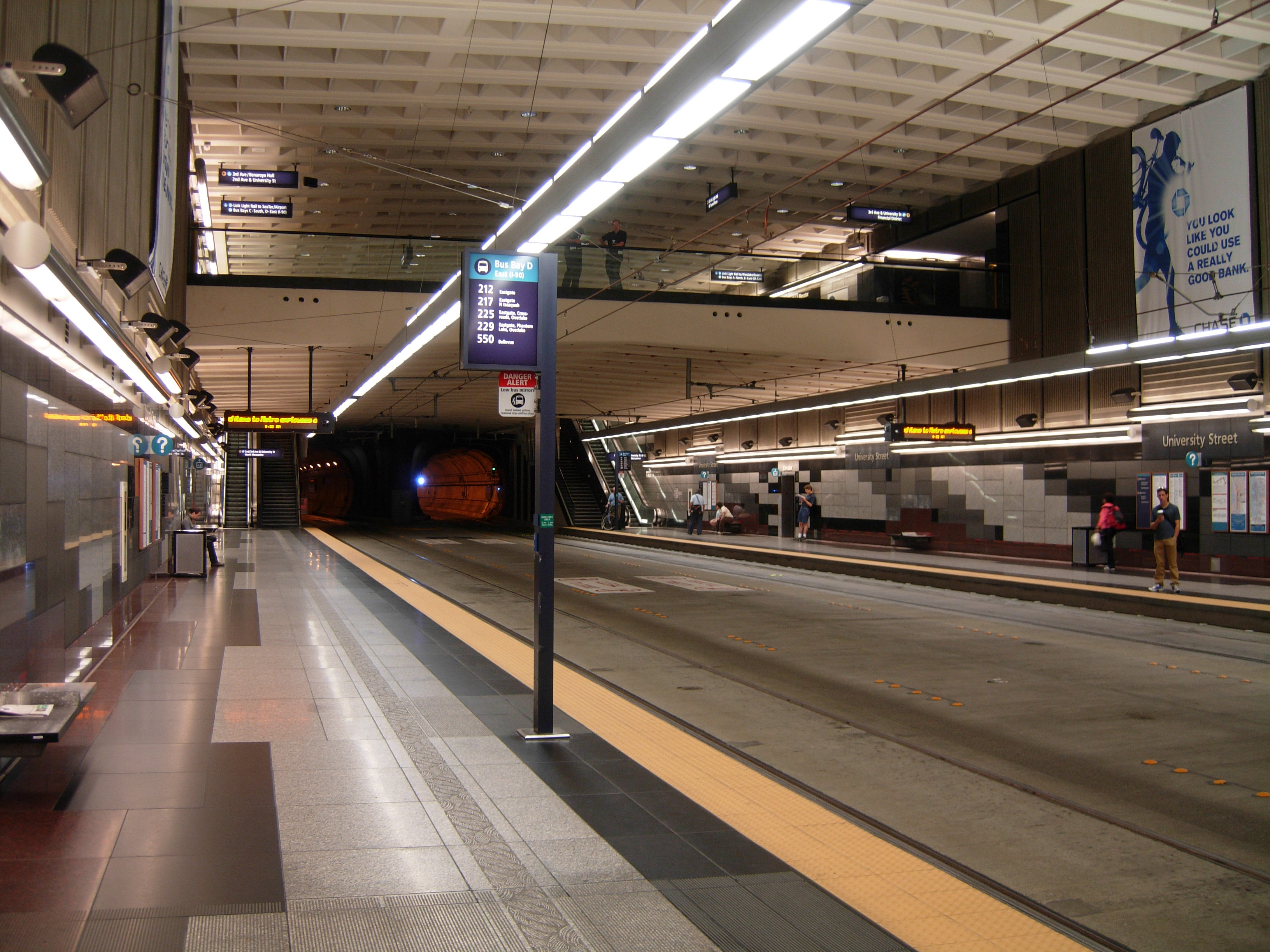 I took this photo myself 7-20-2009.